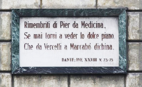 Citazione Inferno di Vercelli